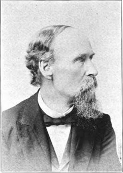 William Ramey Cole, born August 12, 1828, Dearborn County, Indiana. Wife: Cordelia Throop Cole